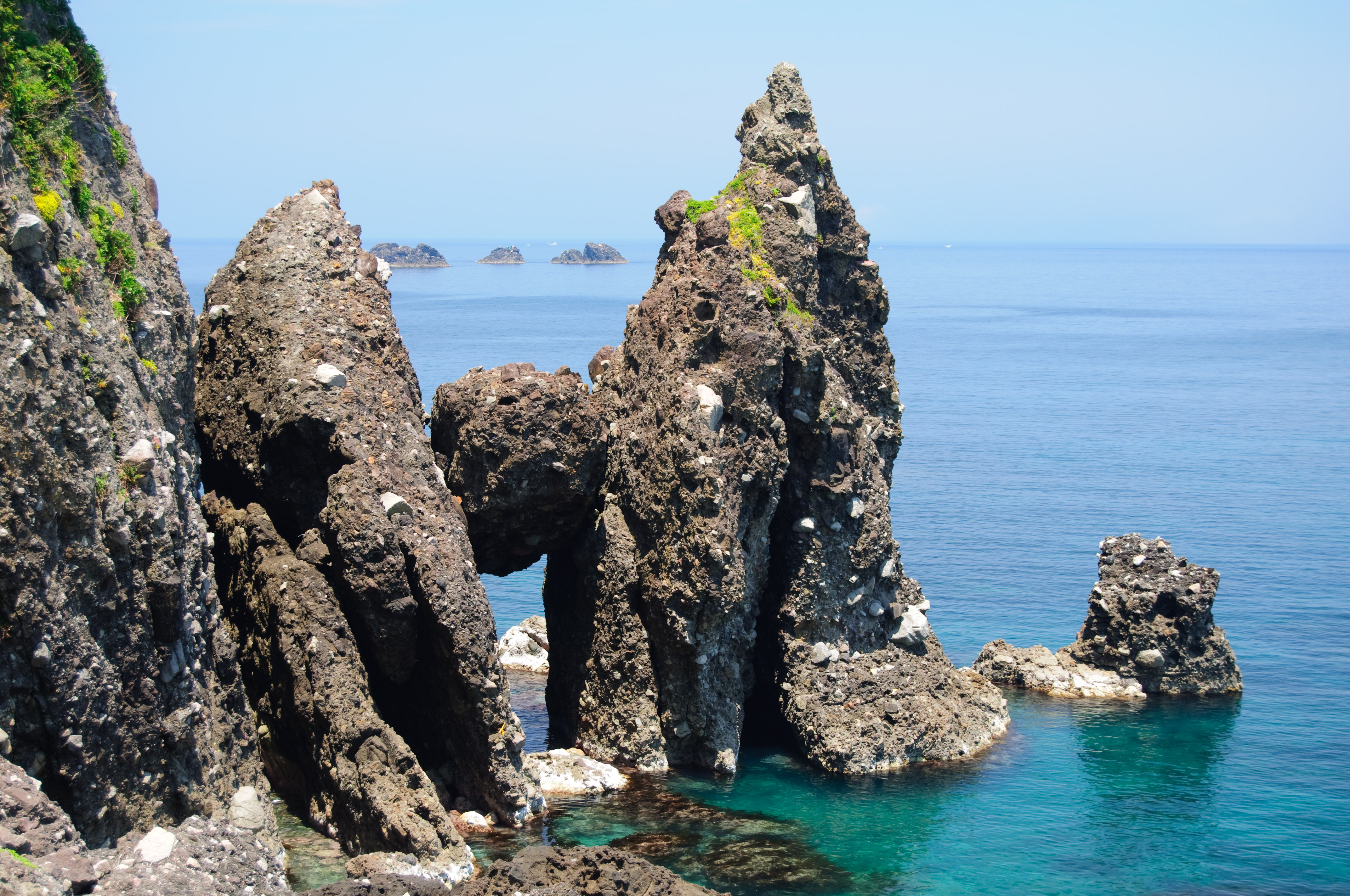 Hasakari-Iwa Rock in Toyooka, Hyogo prefecture, Japan.